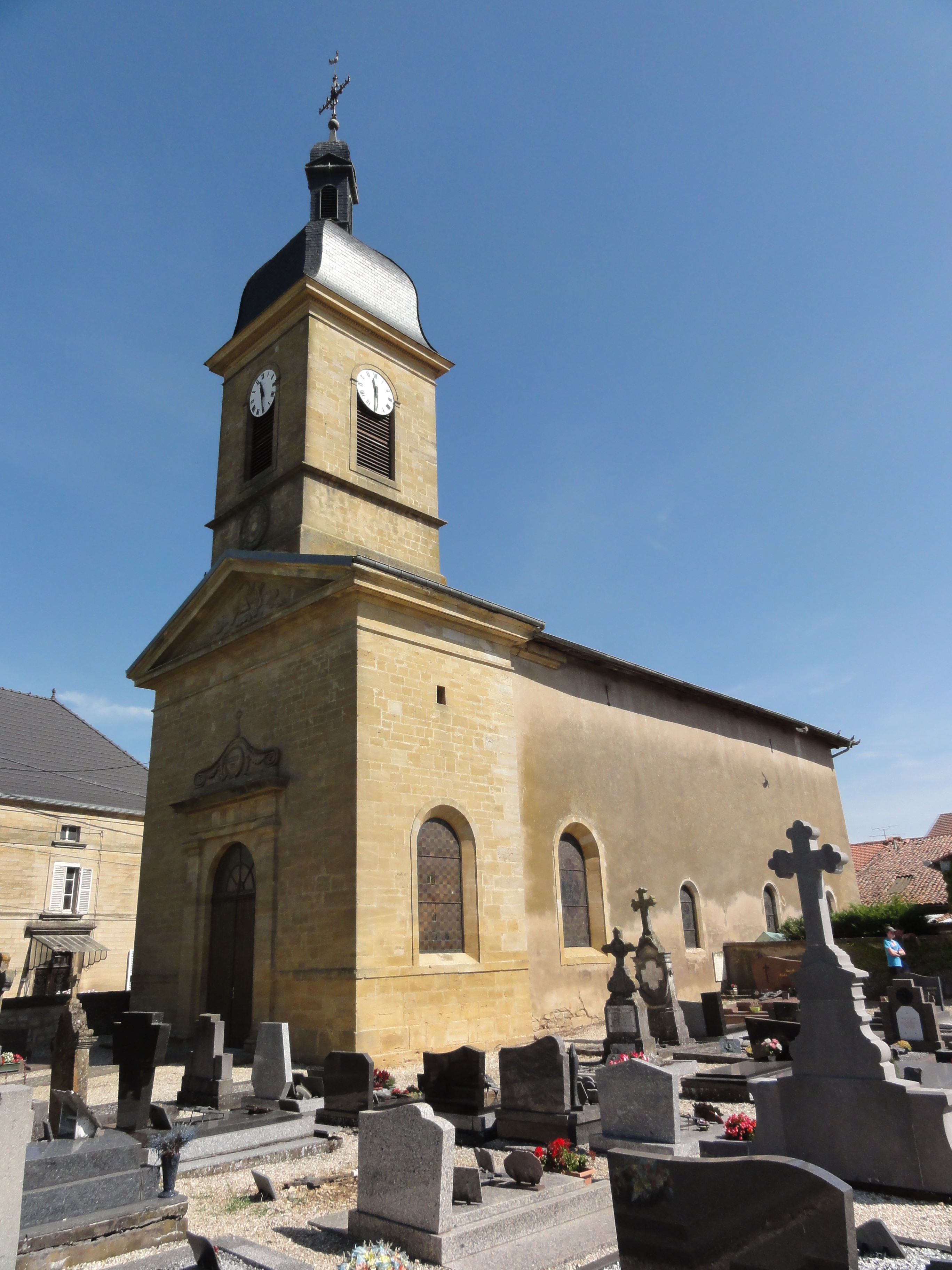 Loison (Meuse) église